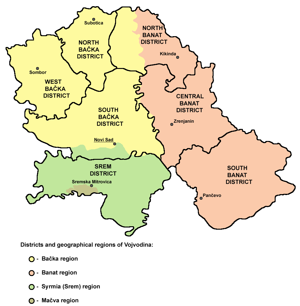 Category:Maps of Vojvodina (Original text: map of Vojvodina)